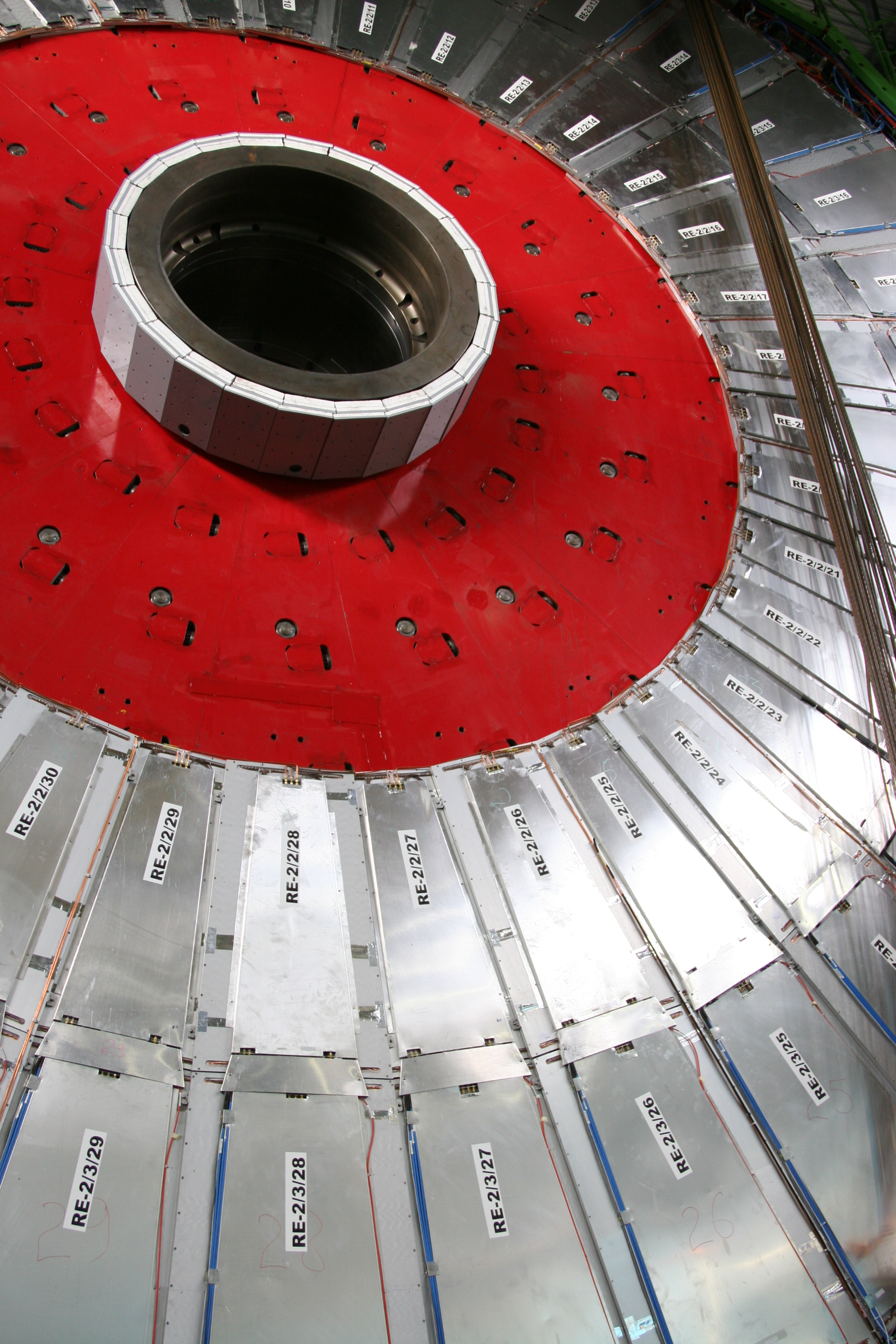 Part of the CMS-detector (at CERN) before it was lowered under ground